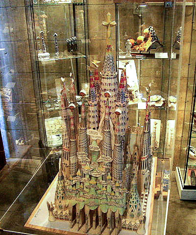 Temple Expiatori de la Sagrada Familia in Barcelona - a model of the finished church.